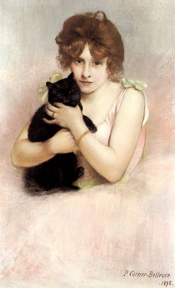 Young Ballerina Holding A Black Cat